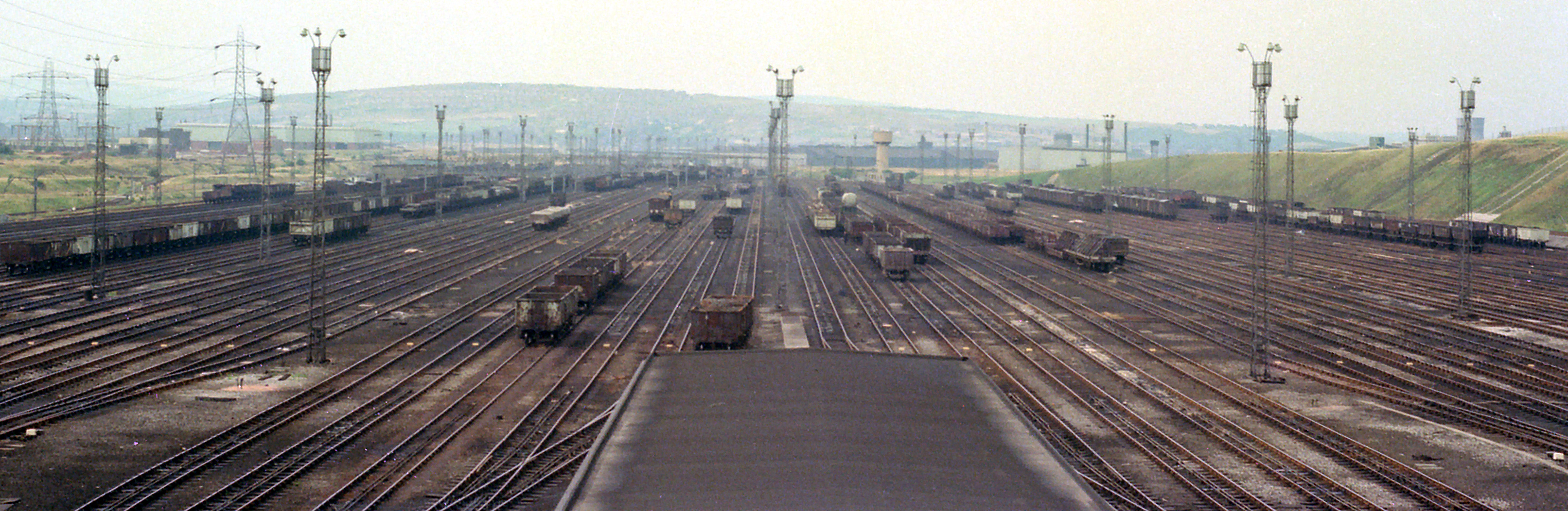 Tinsley Marshalling Yard from the control tower, 6/8/74.